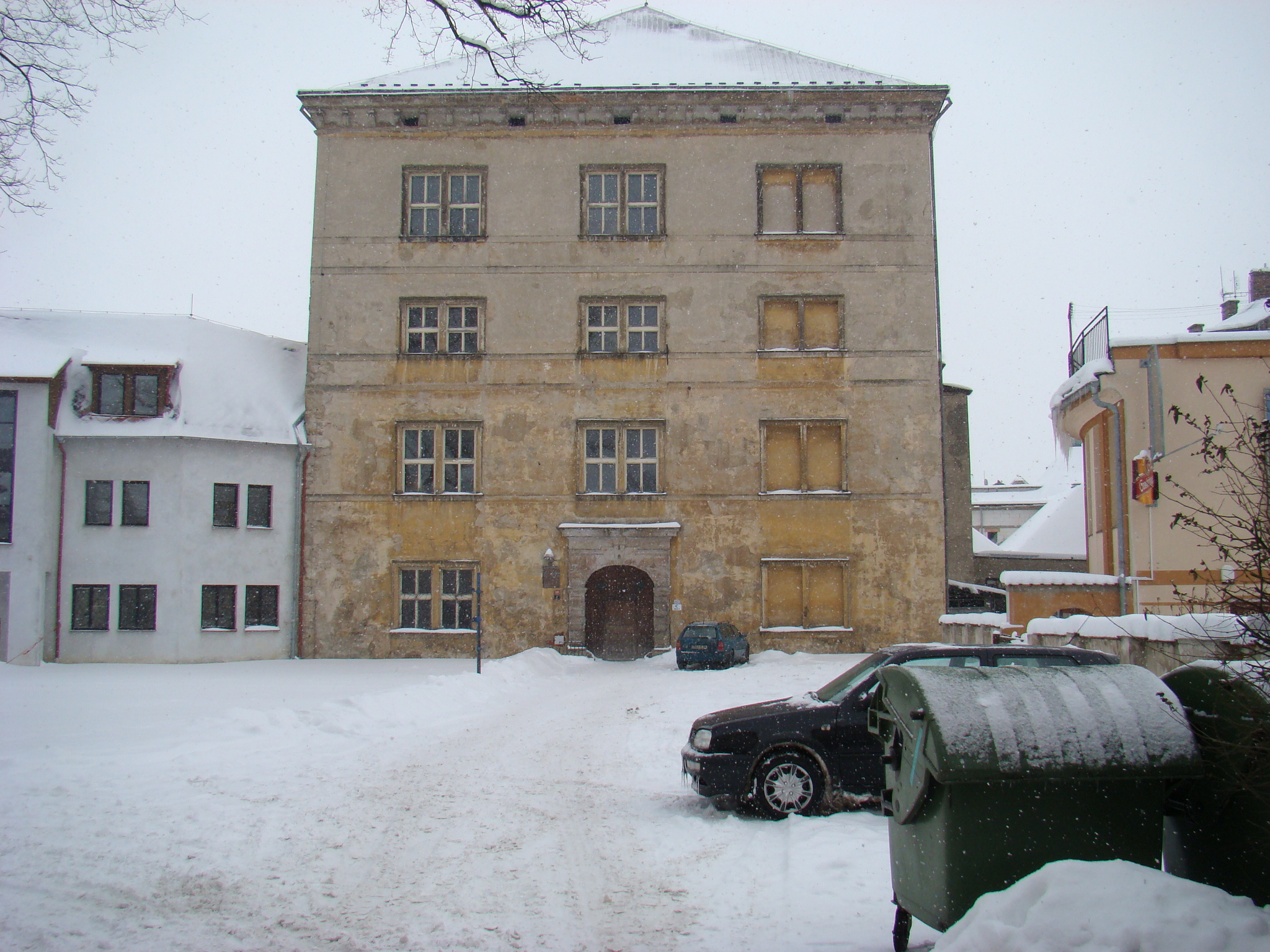 Castle in Rumburk.